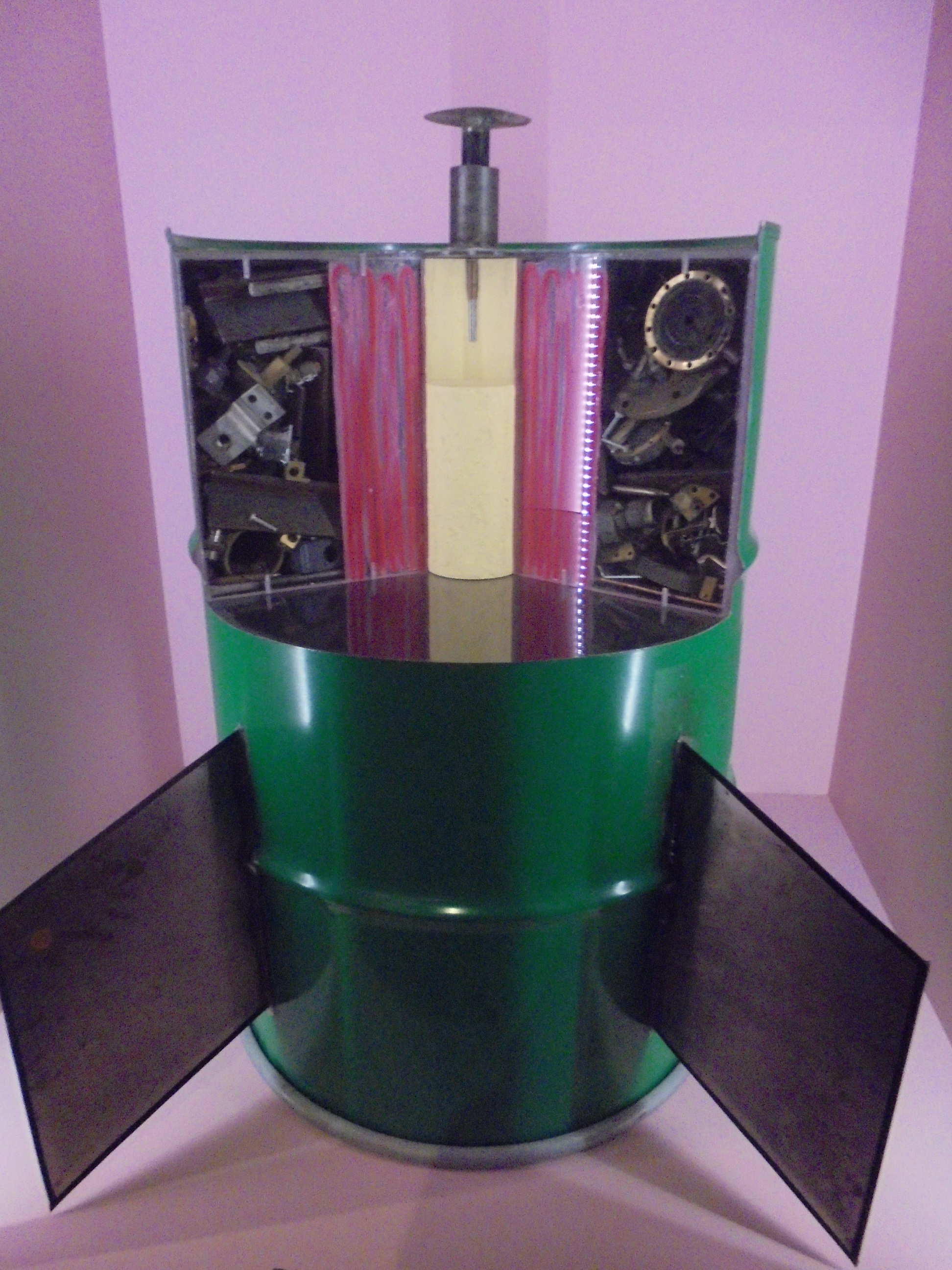 barrel bomb replica IWM. They are large metal containers filled with explosives, scrap metal and petrol. They are cheap and easy to assemble.